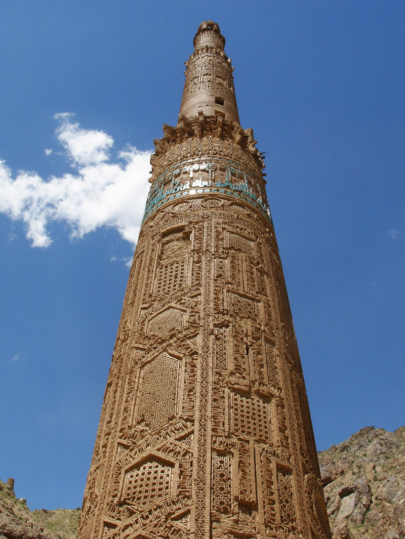 Jam_afghanistan_ghorprovince_islamic_architecture